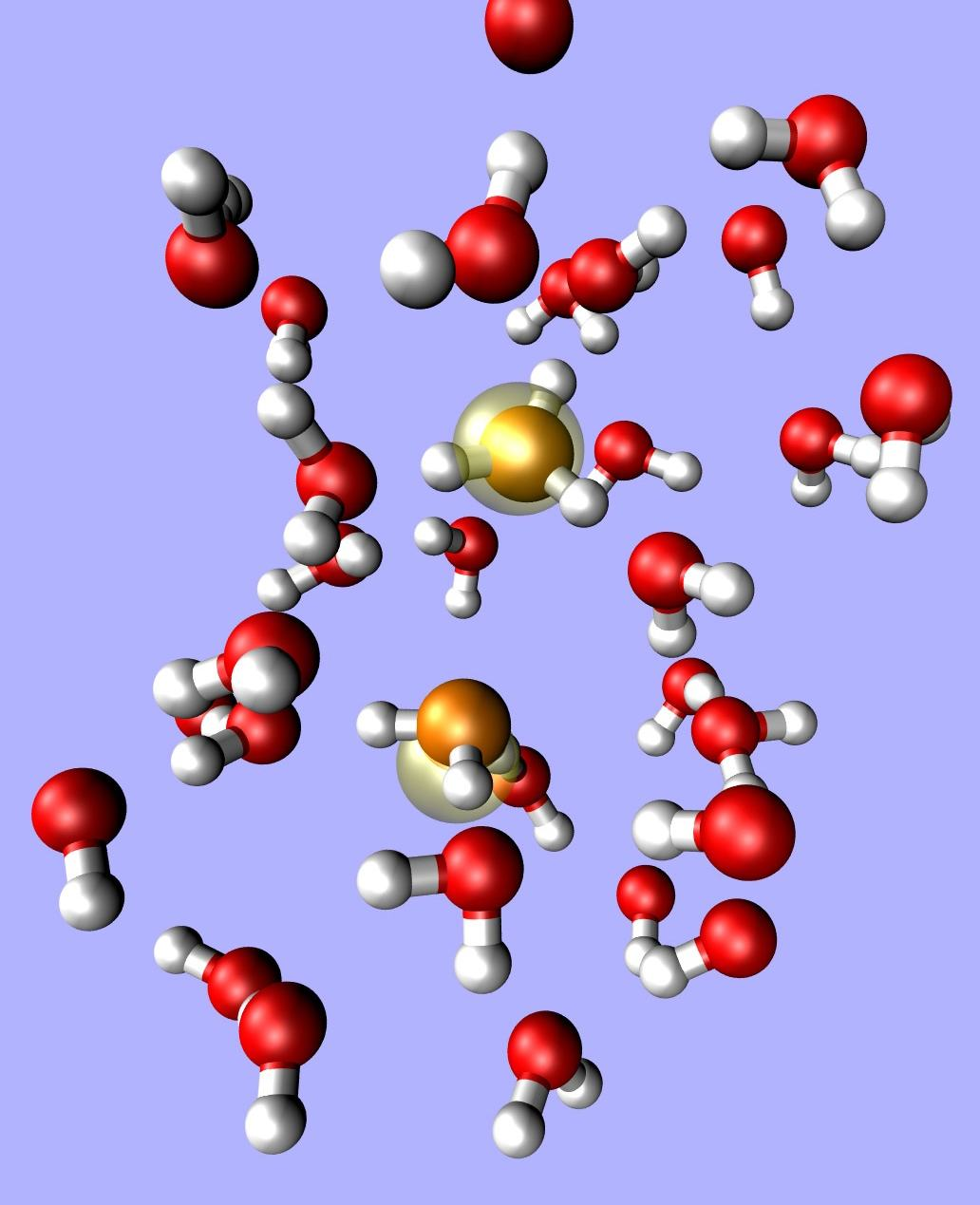 Computer simulation of strongly acidic aqueous solutions showing unusual pairing of hydronium ions. See and Wikinews:Hydrated protons pair off.